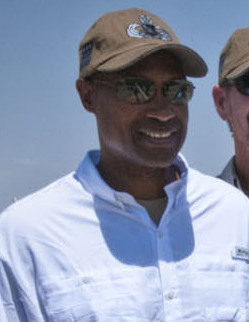 Head coach Leslie Frazier, of the Minnesota Vikings; former head coach Bill Cowher, of the Pittsburgh Steelers; Special teams coach Ben Kotwica, of the New York Jets and Eric Mangini, former coach of the Cleveland Browns and New York Jets take pictures with a M777 lightweight 155mm howitzer on July 3. The coaches were a part of the National Football League-United Service Organizations coach's tour to visit servicemembers in Afghanistan. (Photo by U.S. Army Staff Sgt. Terrance D. Rhodes, RC-East PAO)